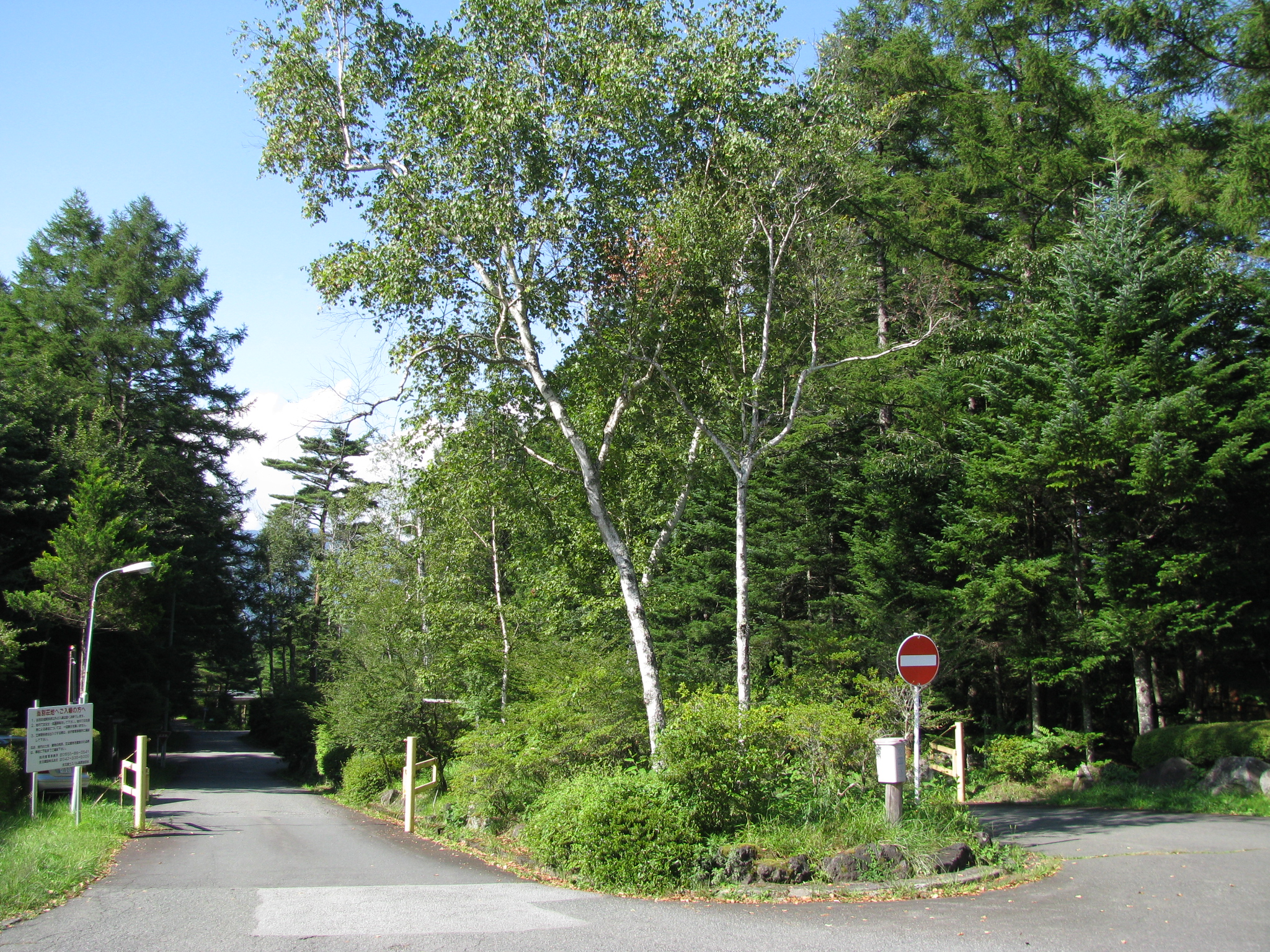 Entrance of First District, Keio Fuji Subaru Highland Villas.